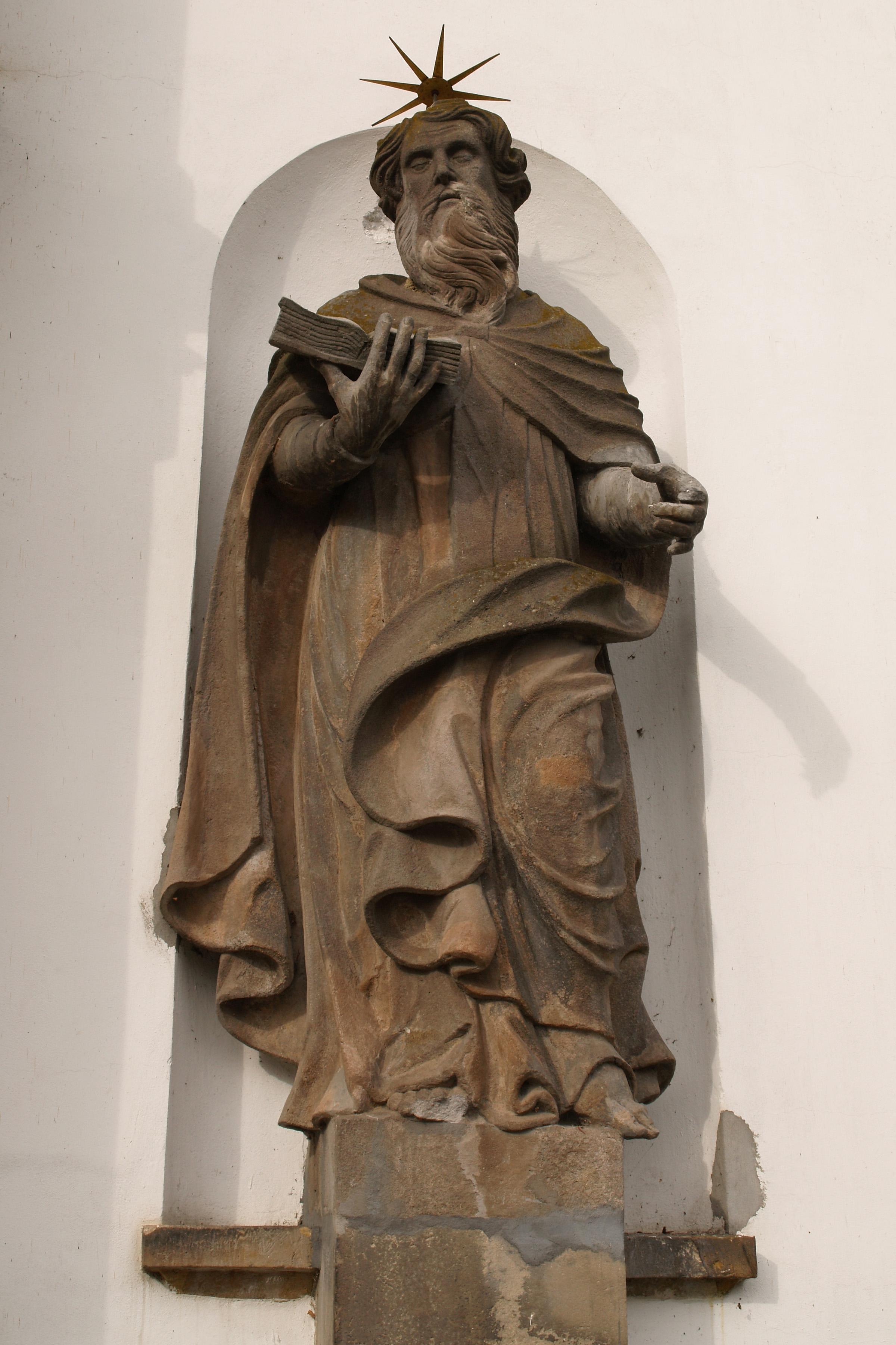 Czech town Semily—Saints Peter and Paul church, detail of Saint Paul’s statue